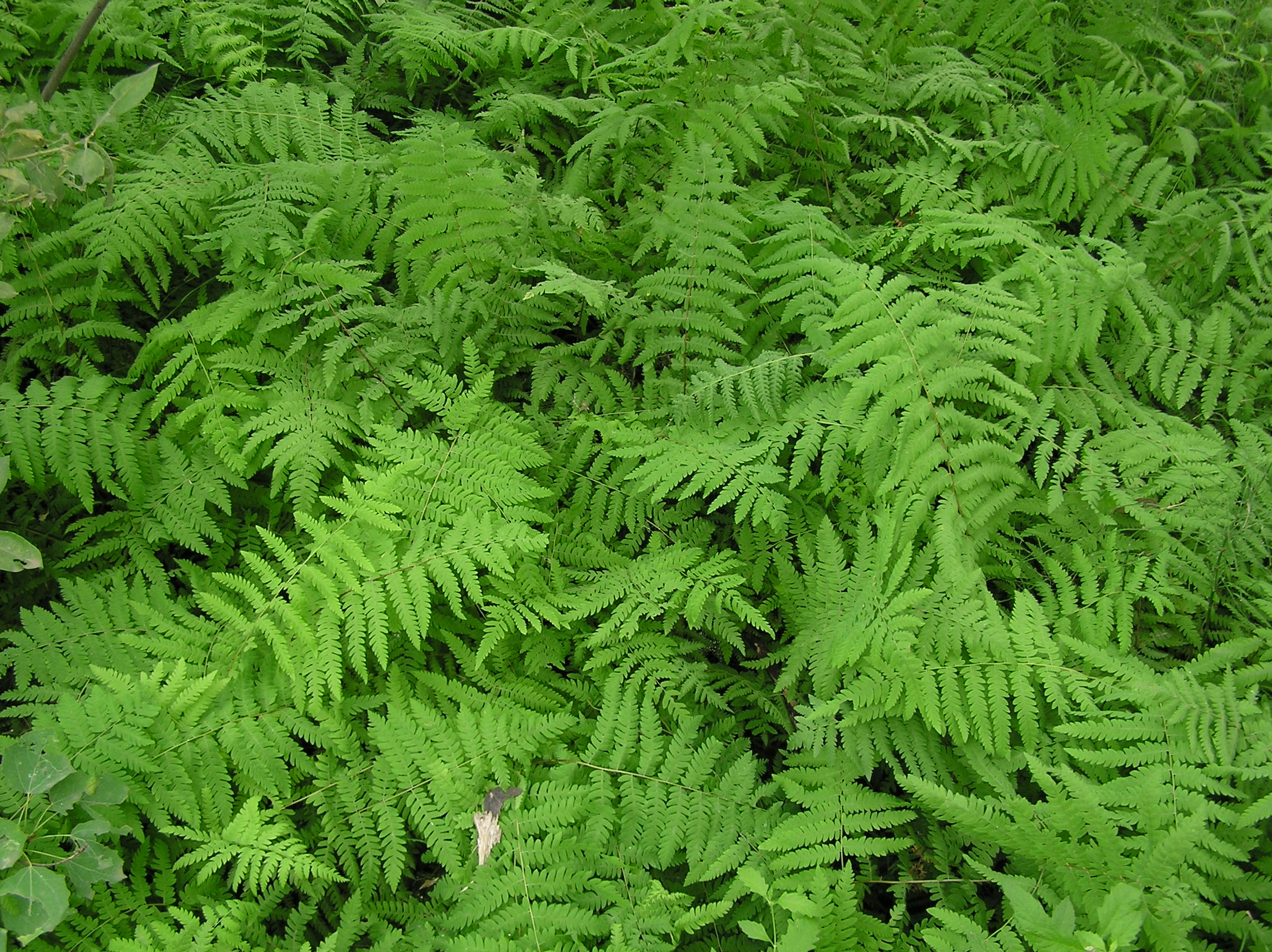 Marsh Fern (Thelypteris palustris Schott). Habitat: edges of an oxbow lake near Volgograd Reservoir (Volga). Engelssky District, Saratov Oblast, Russia.